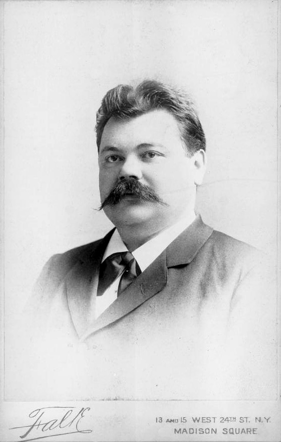 Russian violinist Adolph Brodsky (1851—1929) during his work in New York